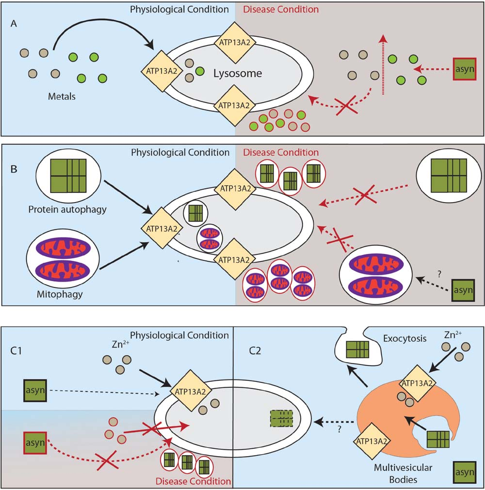 Putative intracellular pathways connecting asyn and ATP13A2. (A) ATP13A2 may be responsible for metal clearance via the lysosome (left side). A failure in this process, caused by mutations or reduced activity of ATP13A2, would lead to the toxic accumulation of metals in the cytoplasm (right side)